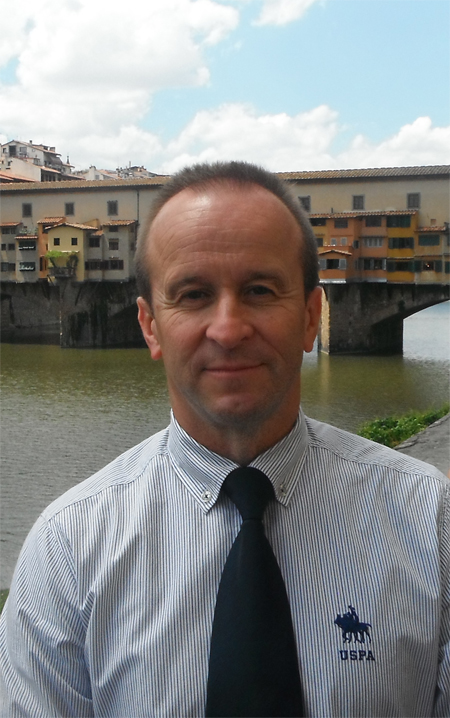 Dr Dragan Djokanovic in Florence